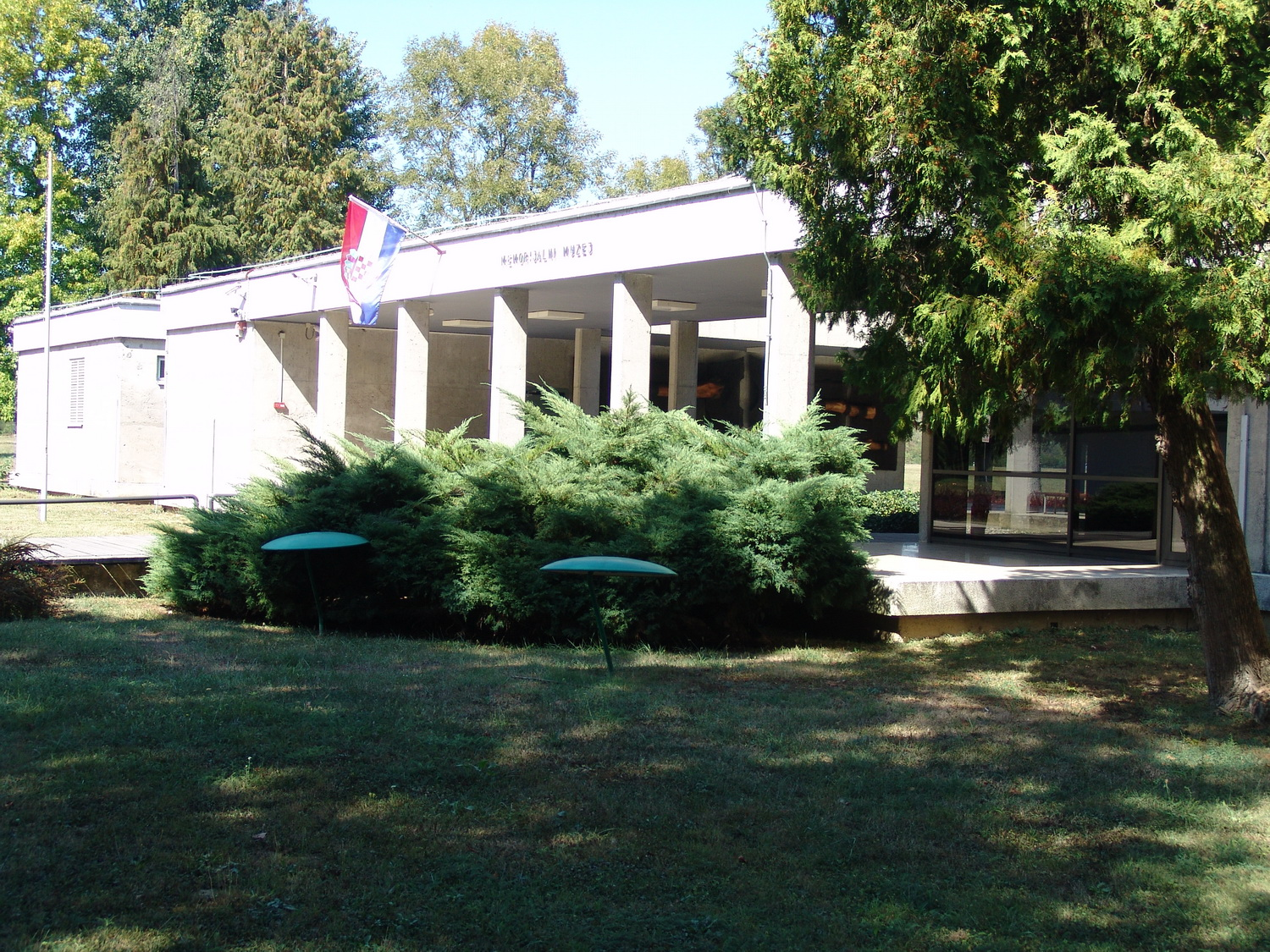 Memorial area Jasenovac, Croatia